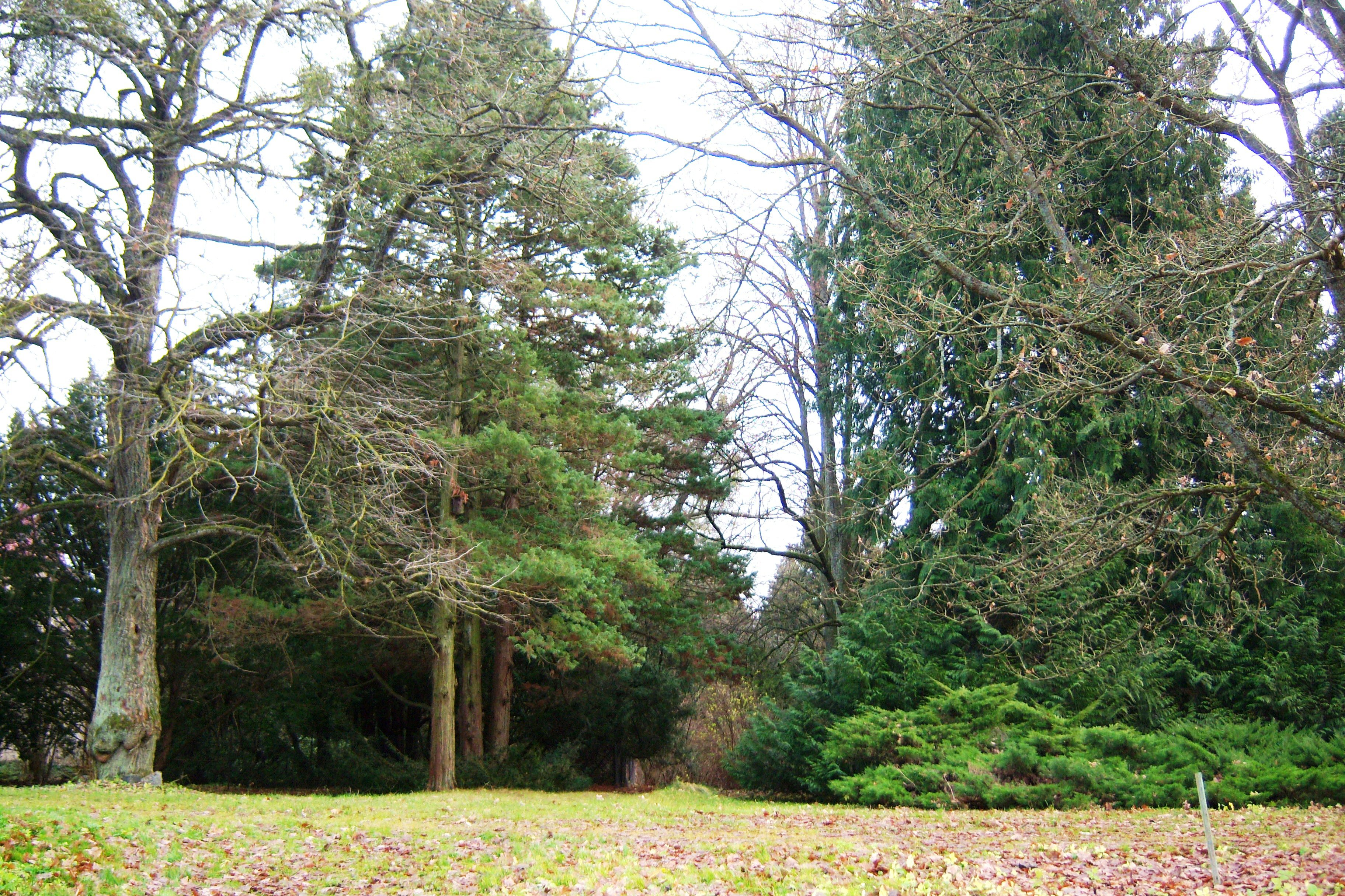 Obelynės parkas in Kamšos Botanical and Zoological Reserve, by T. Ivanauskas' house, Akademija, Kaunas district, Lithuania